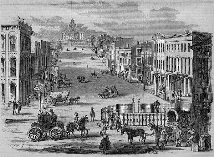 View of the Capitol, Montgomery, Alabama, an engraving published on November 7, 1857 in Ballou's Pictorial Drawing-Room Companion, Boston, Massachusetts.